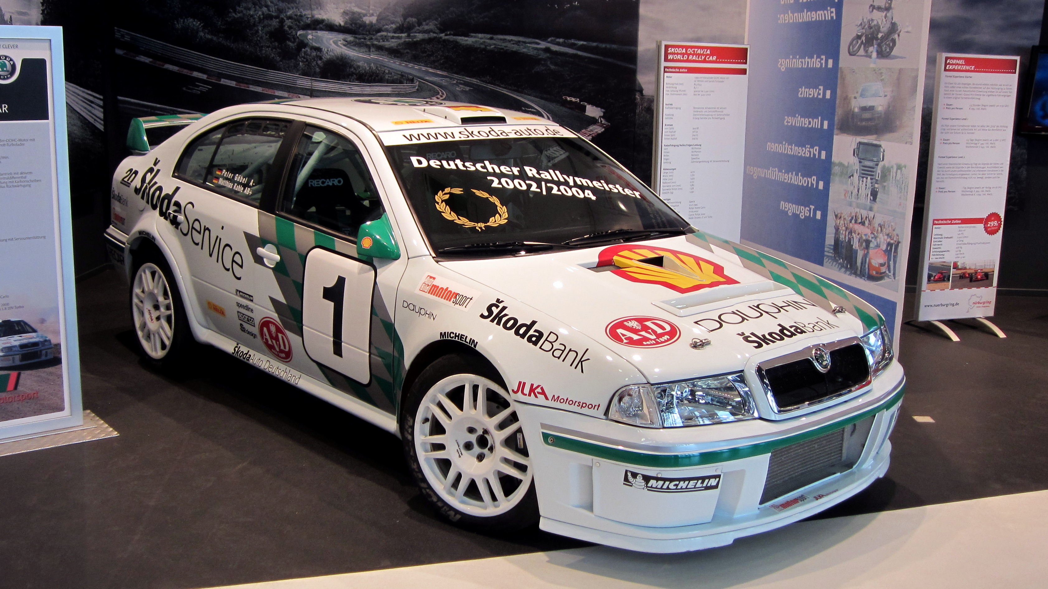 Skoda Octavia I WRC at the Nürburgring (ring°boulevard)